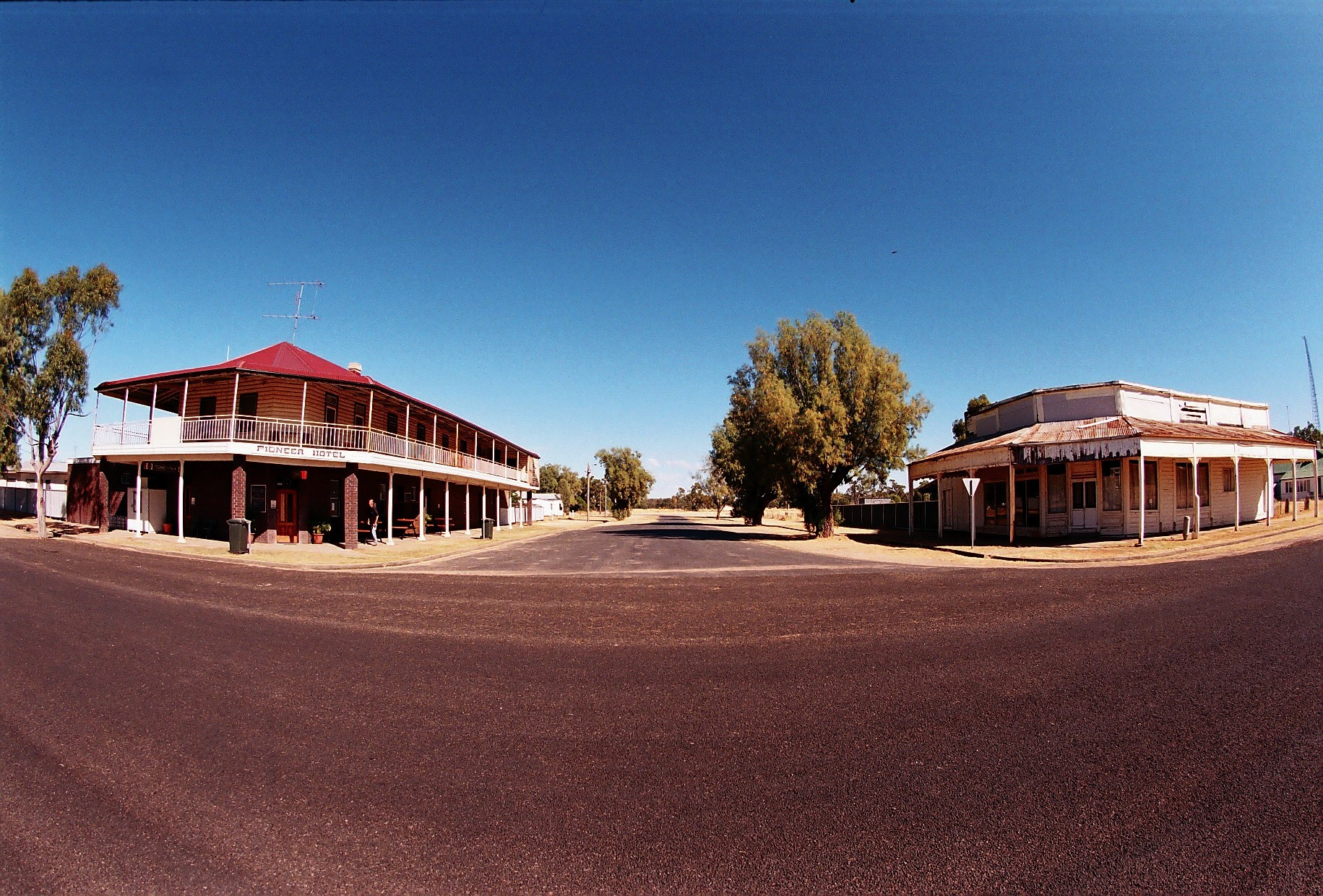 The main street; Pub on the left, a long-closed store on the right. Spent many a day of my childhood in these two buildings. Days long gone now.